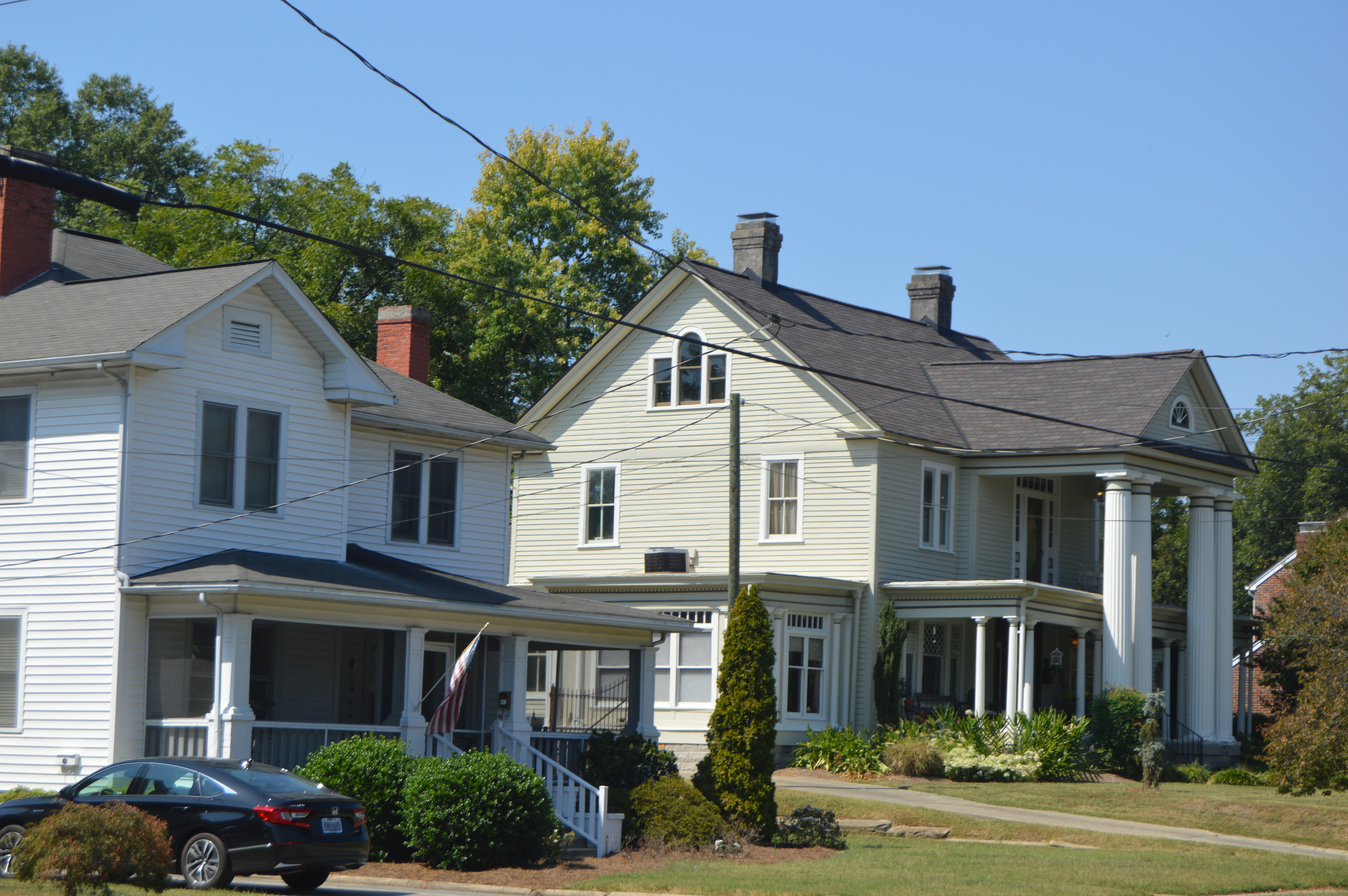 Houses on Davis Street between the Cameron and Tucker intersections in Burlington, North Carolina, United States. This block is part of the East Davis Street Historic District, a historic district that is listed on the National Register of Historic Places.